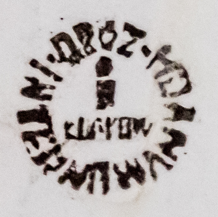 Lech Dziewulski signature from the period of underground activities 1980-1989